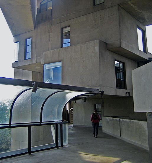 Habitat 67 (Montreal). Cropped from File:Habitat 67 Montreal Close-up.jpg